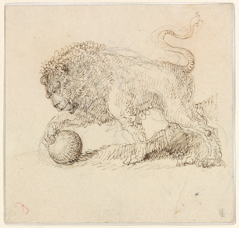 Study of one of the Medici Lions. Recto: pen and brown ink over black chalk, a further study of the same Lion in black chalk on the verso.